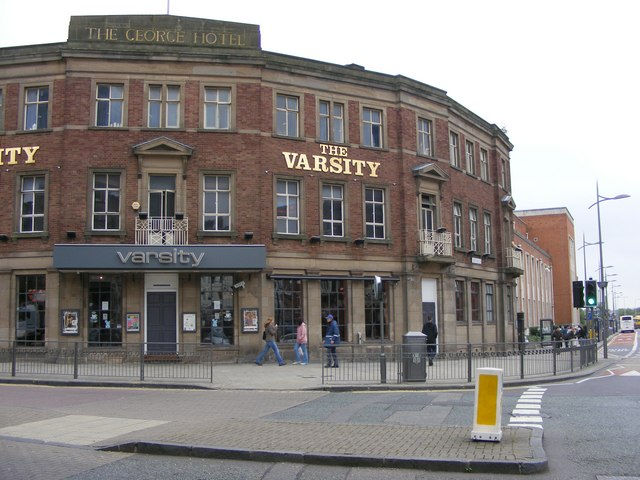 The Varsity The Pub stands next to the University in Stafford Street.